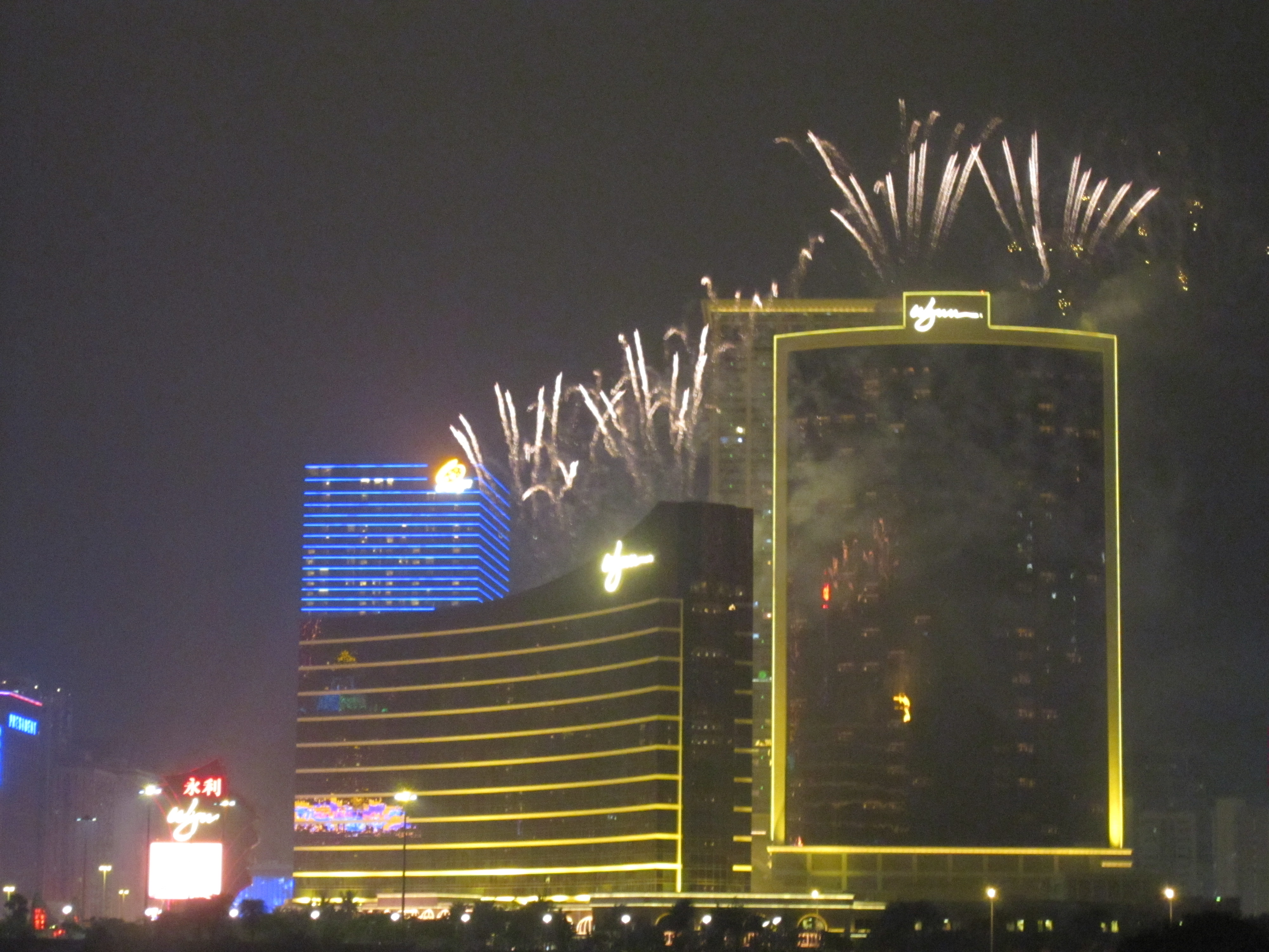 The fireworks performance at Encore at Wynn Macau